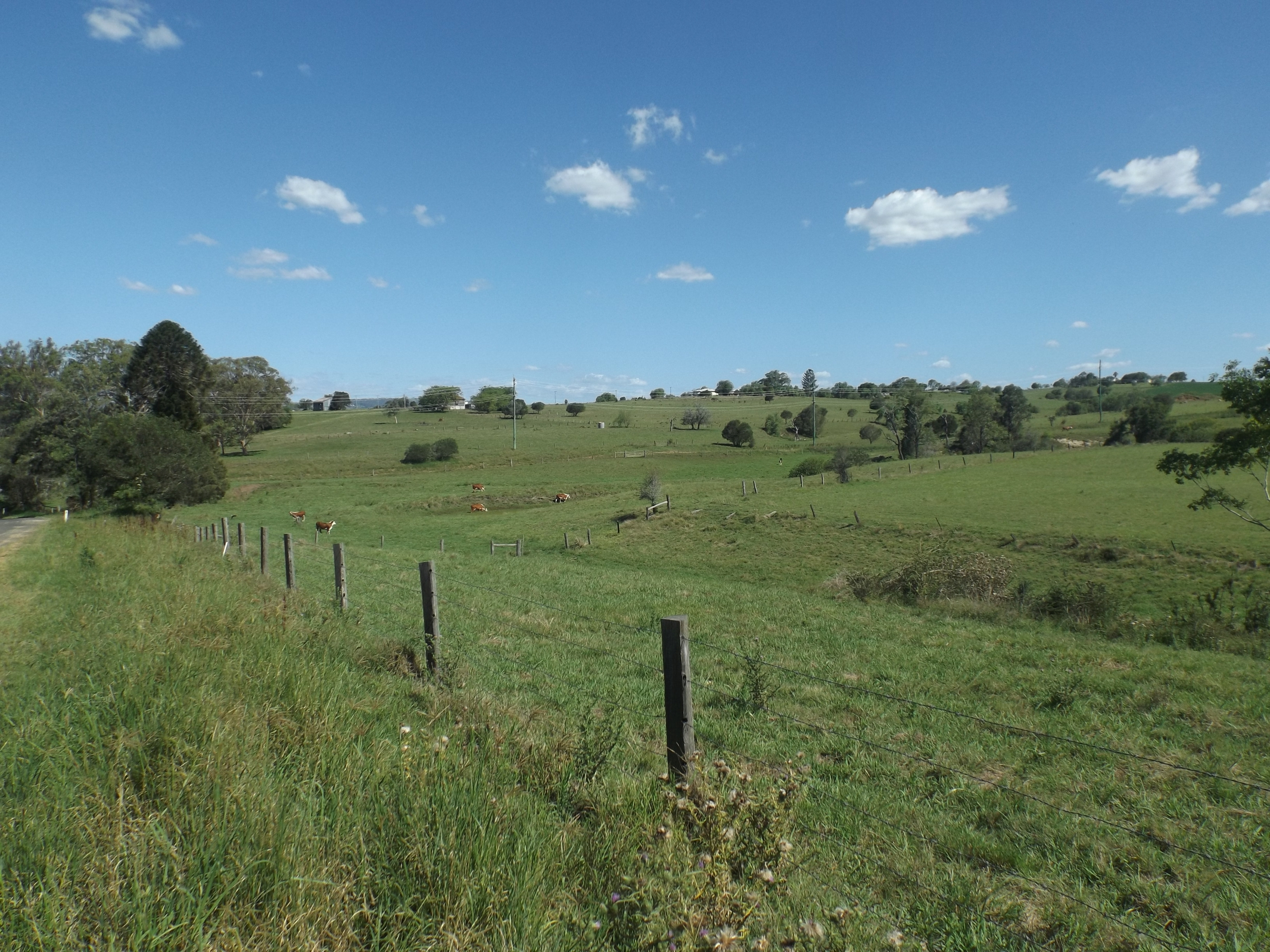 Photo of paddocks along Kents Pocket Road at Templin Queensland